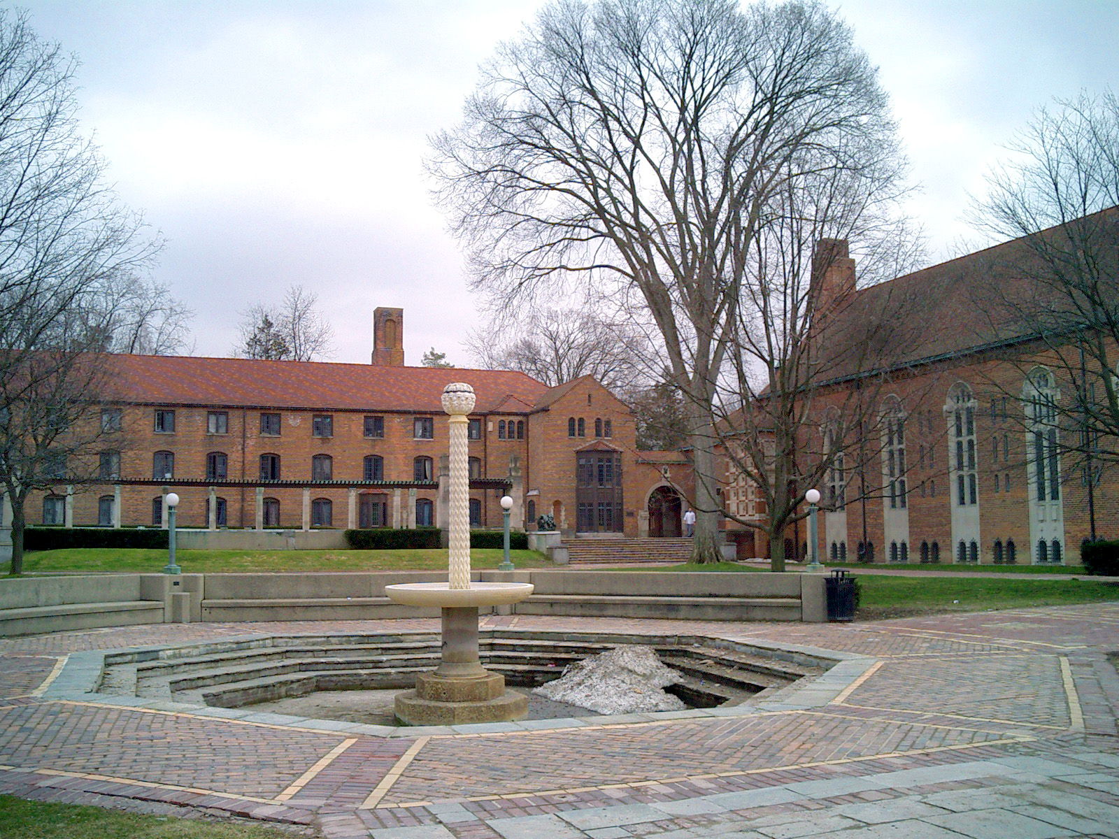 The Cranbrook School Quadrangle, Cranbrook School, Bloomfield Hills, MI. Original copyright attributed to Bradley Portnoy.